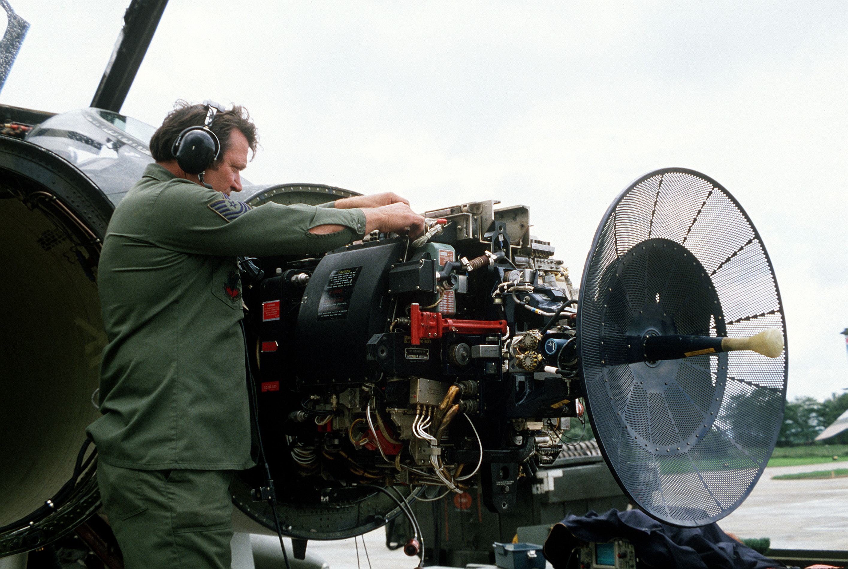 U.S. Air Force MSgt. James F. Stewart, weapons control technician, performs maintenance on an McDonnell Douglas F-4C Phantom II aircraft's AN/APQ-100 radar system on 26 June 1982. MSgt. Stewart was assigned to the 131st Consolidated Aircraft Maintenance Squadron, Missouri Air National Guard, and participated in exercise "Coronet Cactus".